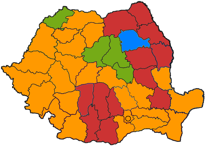 Own work.